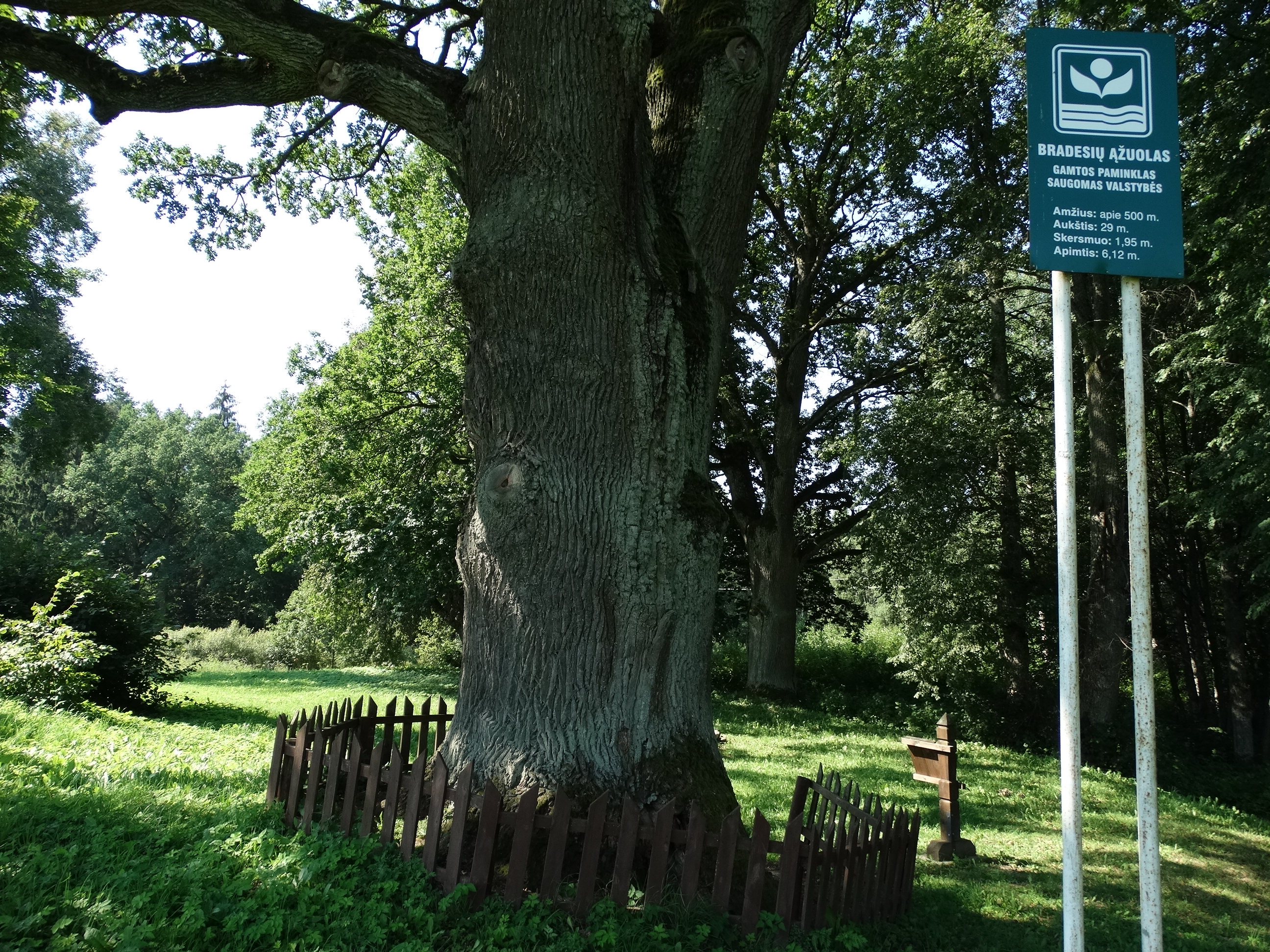 Bradesiai Oak, Rokiškis District, Lithuania